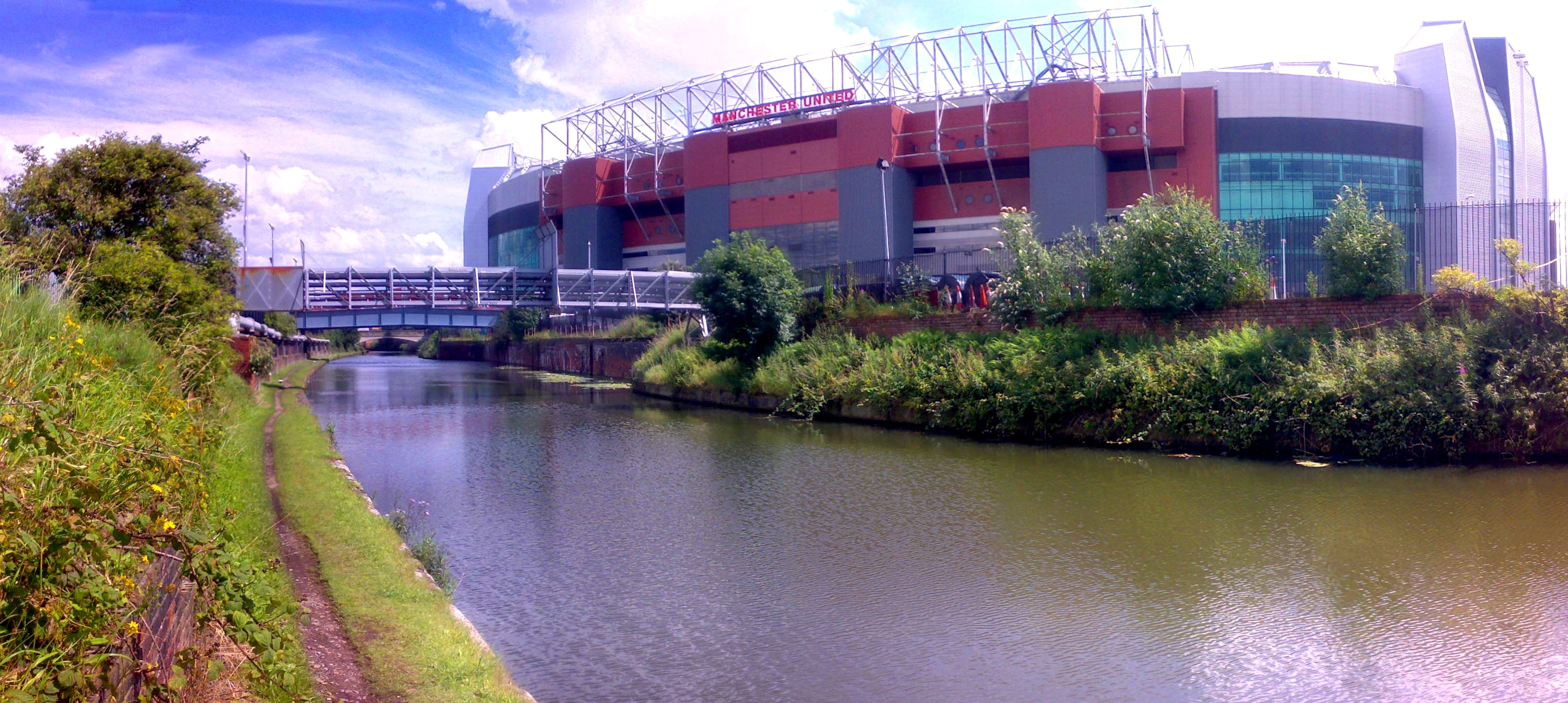 Bridgewater canal heading east as it passes Manchester United